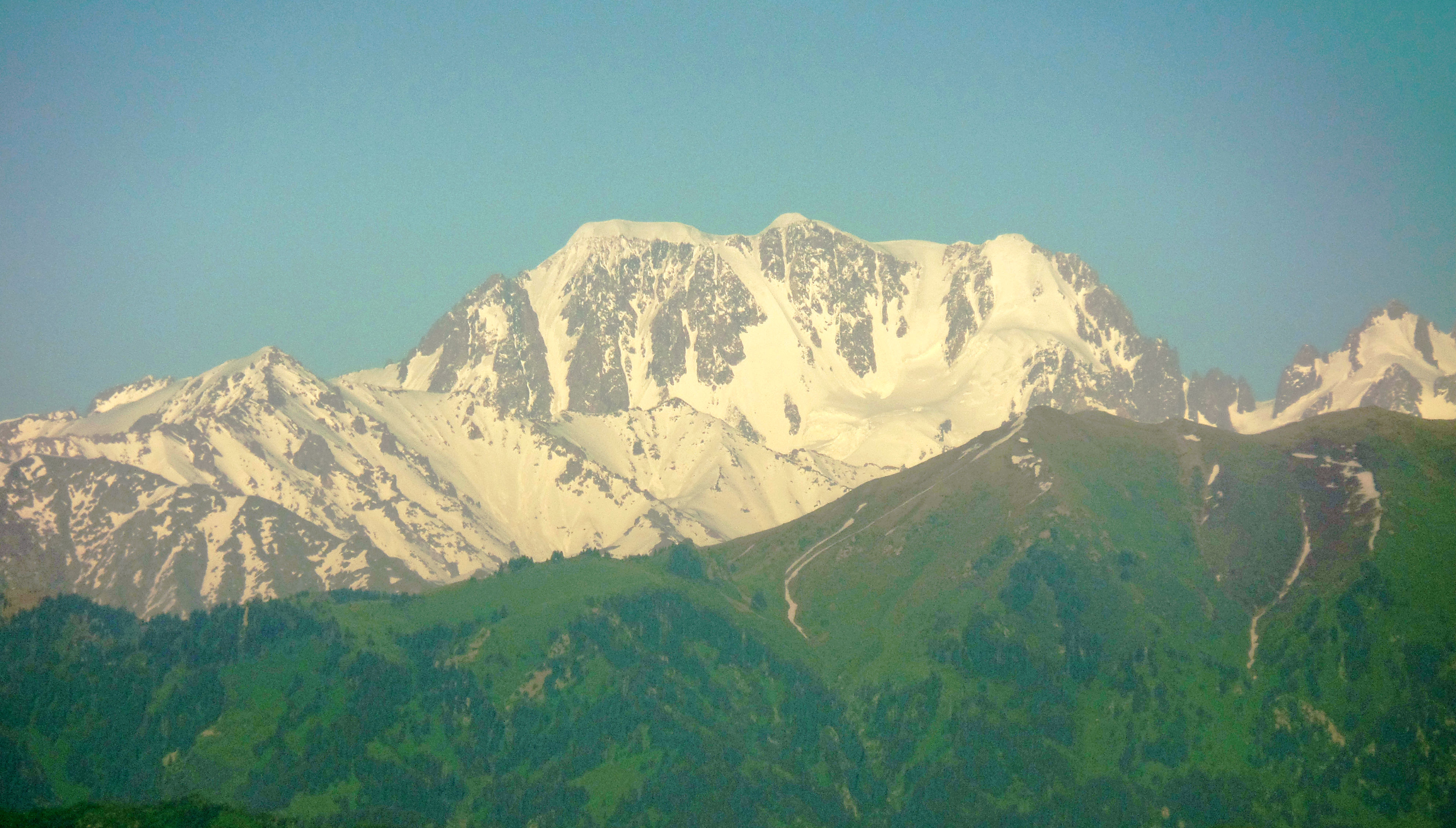 Pik Talgar